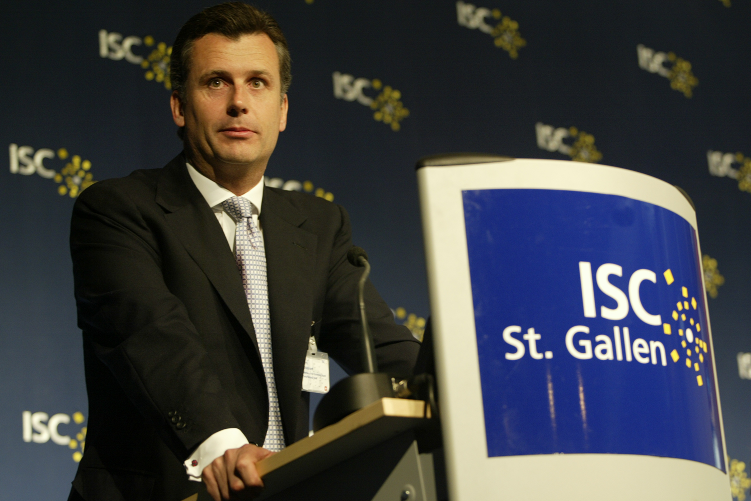 Philipp Hildebrand in May 2005 at the 35th Sankt Gallen Symposium at the University of Sankt Gallen.